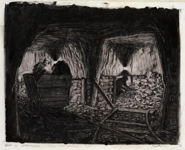 A view inside a coal mine at the point where a tunnel splits into two directions. Miners can be seen working in both branches.